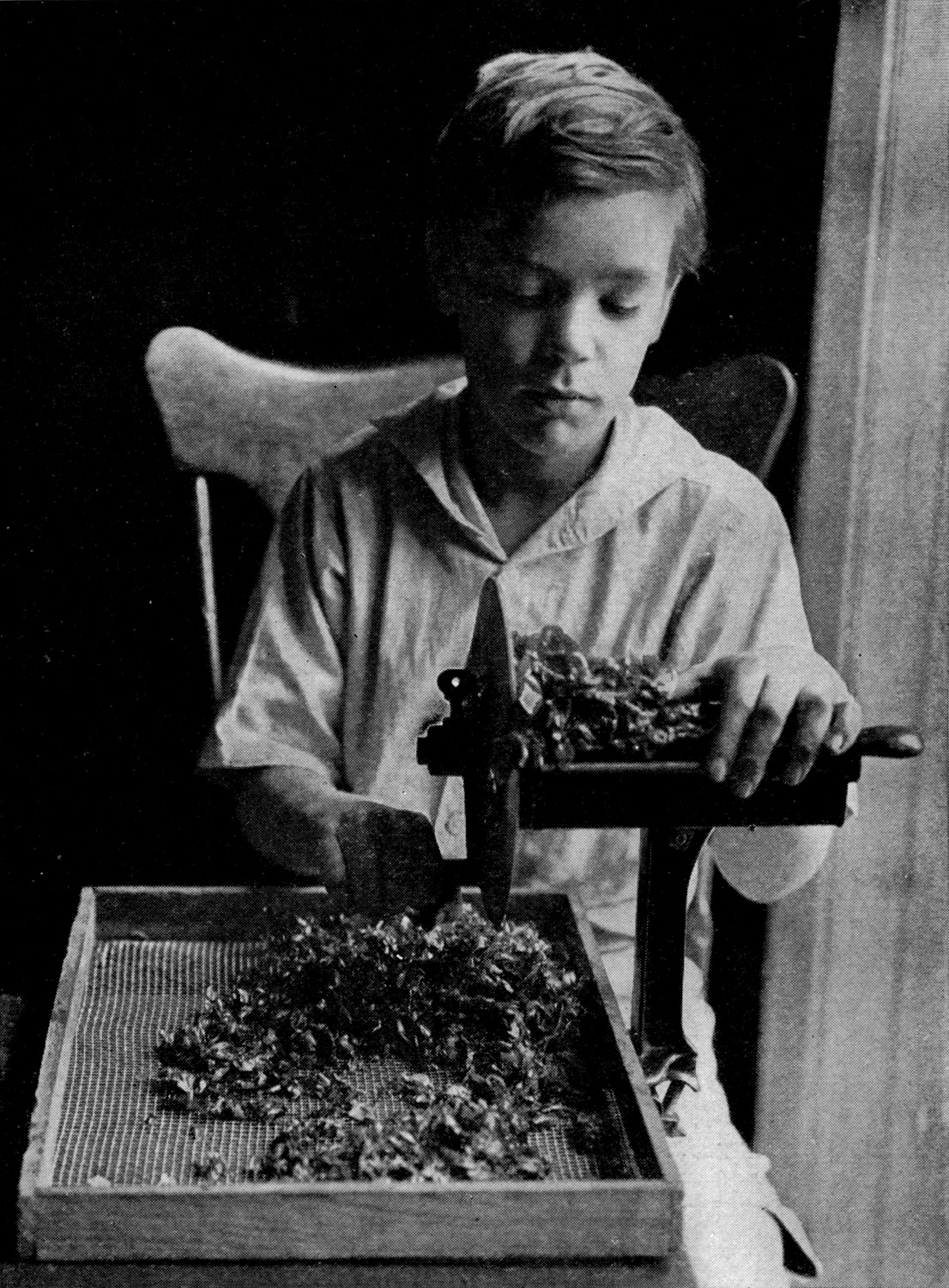 A CHILD SLICING SWISS-CHARD LEAVES PREPARATORY TO DRYING THEM ON THE STOVE OR SUN DRIER. Great caution must be exercised in the use of any form of slicer, for it will cut fingers as mercilessly as it does vegetables.